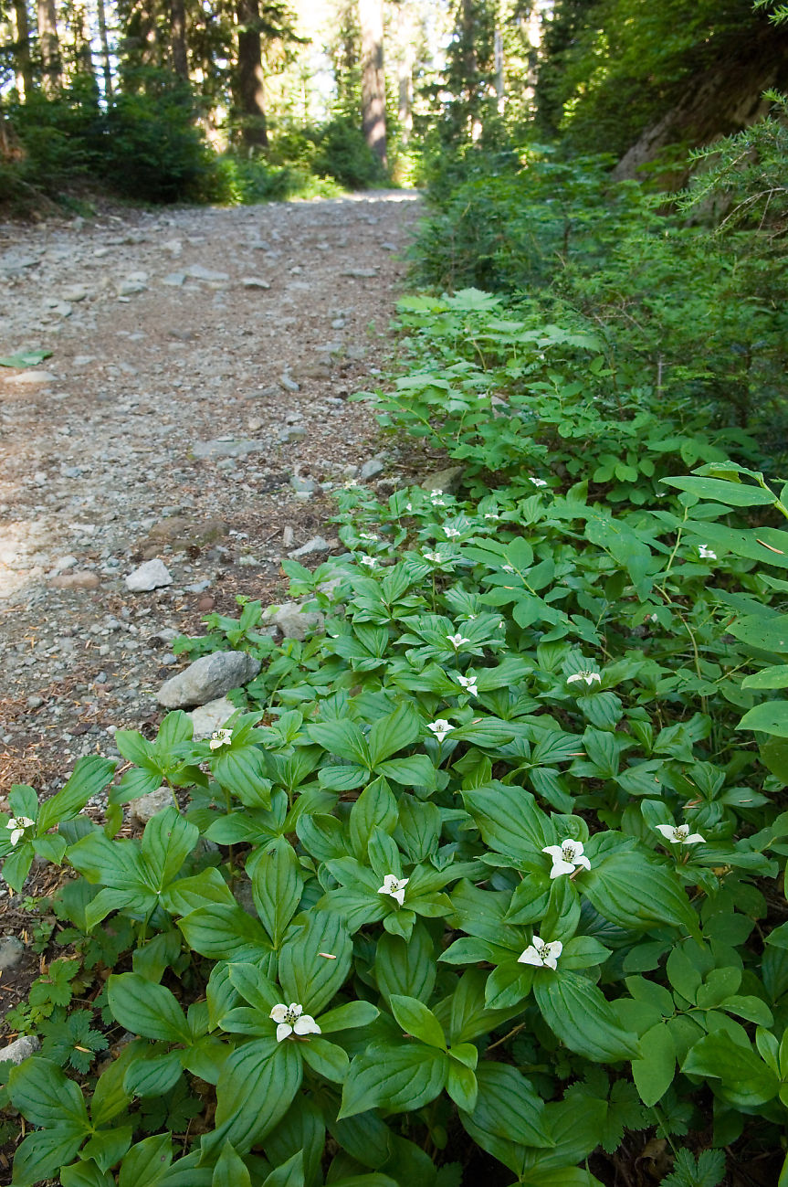 Canadian Dogwood growing next to the trail up to Elfin Lakes.